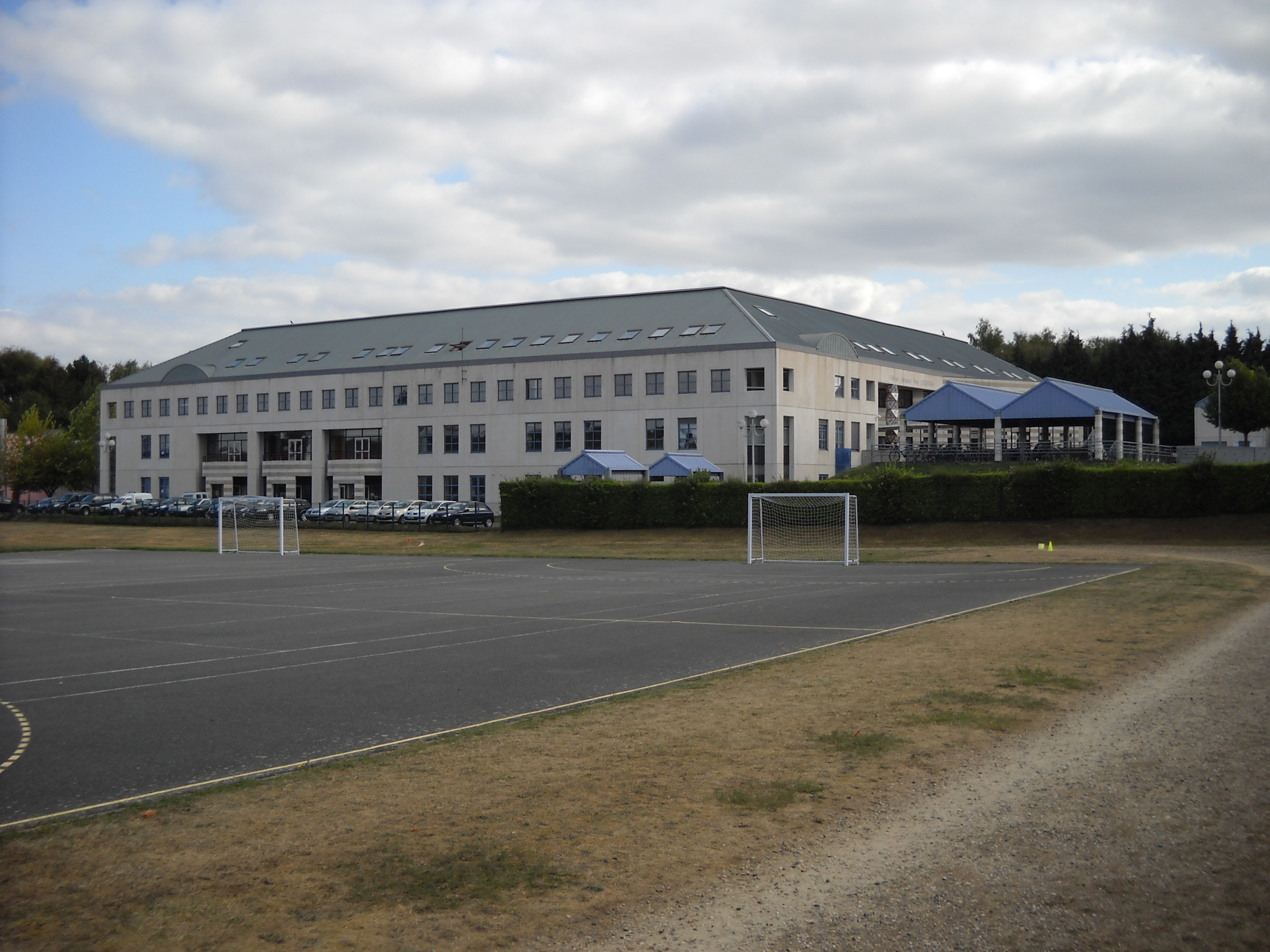 Secondary school in Clermont, Oise, France.